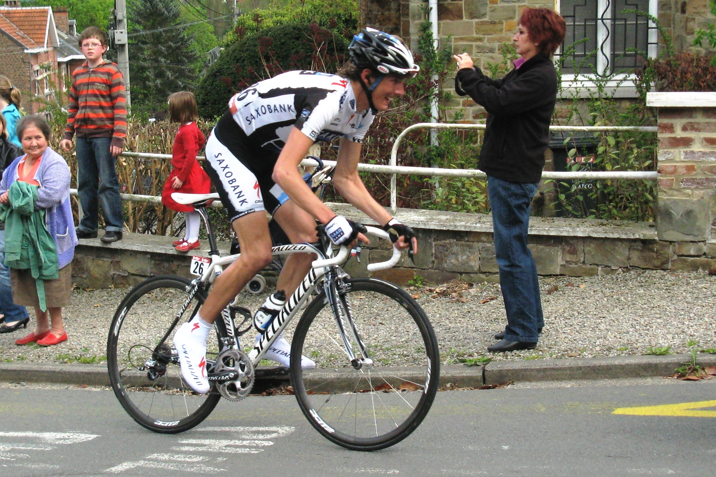 Andy Schleck attacking Philippe Gilbert in the Côte de la Roche aux Faucons; Liège-Bastogne-Liège 2009